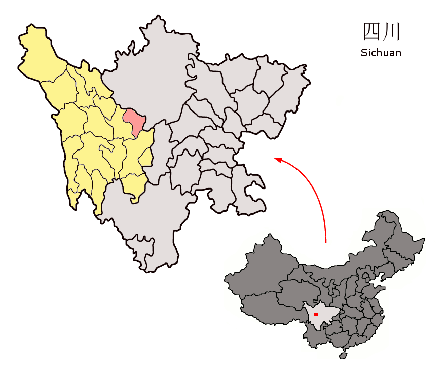 Location of Danba County (pink) and Garzê Prefecture (yellow) within Sichuan province of China Map drawn in september 2007 using various sources, mainly : Sichuan province administrative regions GIS data: 1:1M, County level, 1990 Sichuan Counties map from